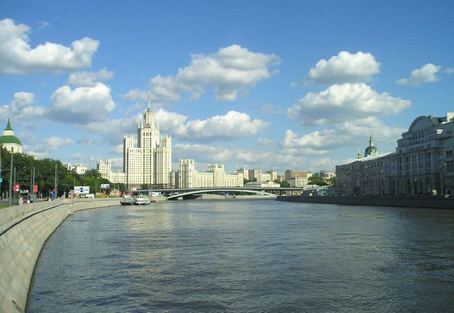 Moscow river